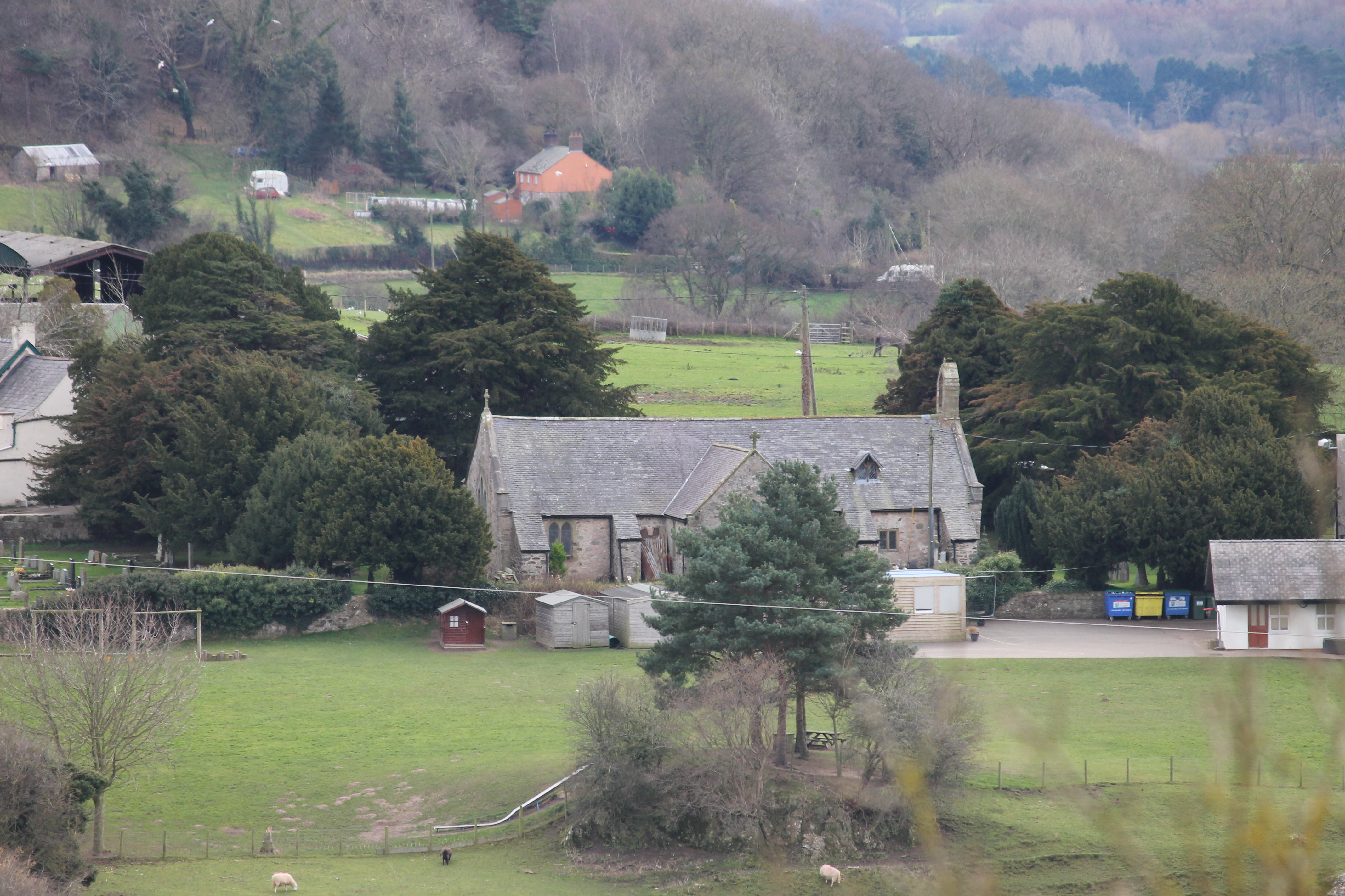 Church of Corpus Christi, St Beuno's colege, Denbighshire, Wales. Grade II*.